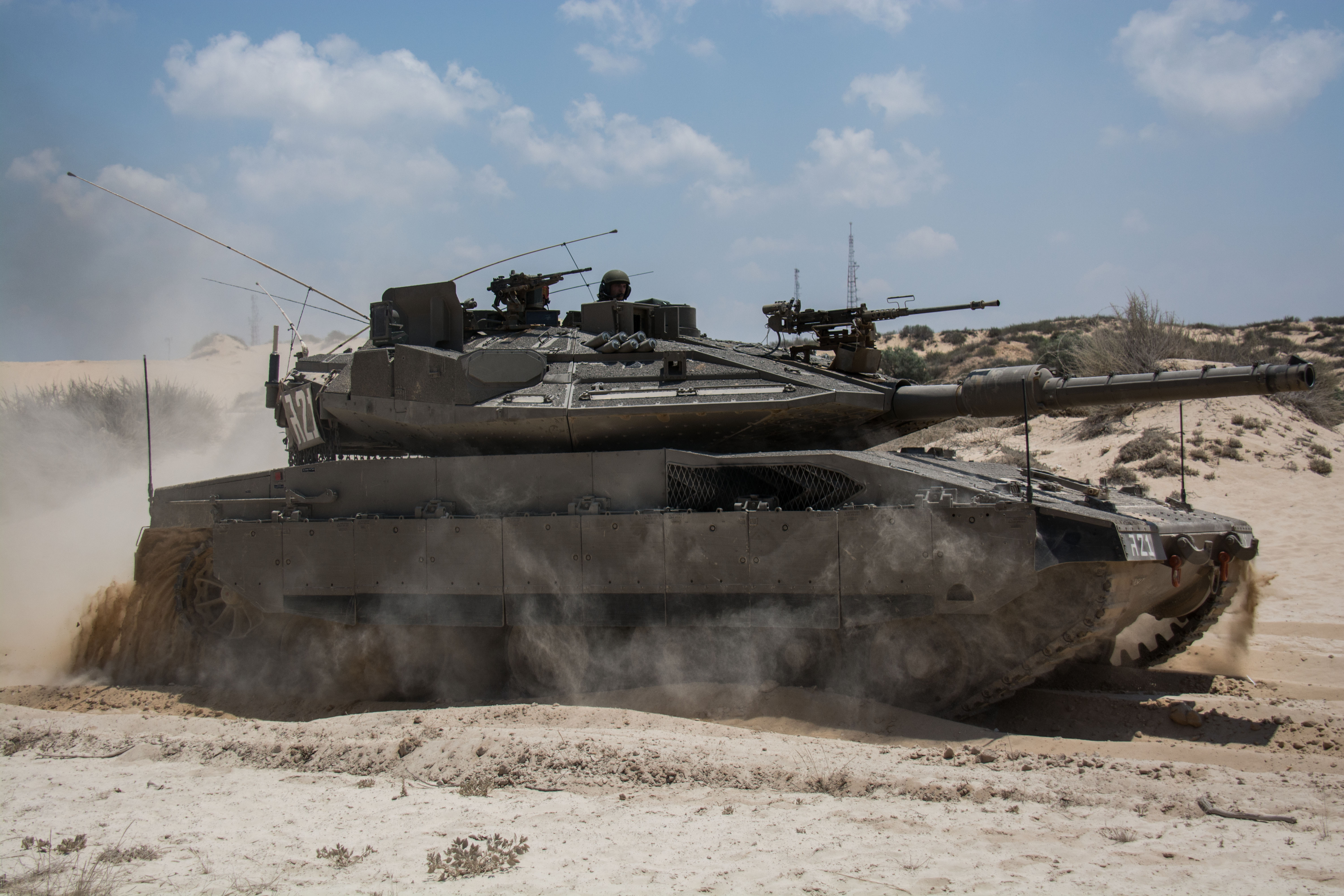 For more updates: The Israel Defense Forces Facebook The Israel Defense Forces blog Follow us on Twitter